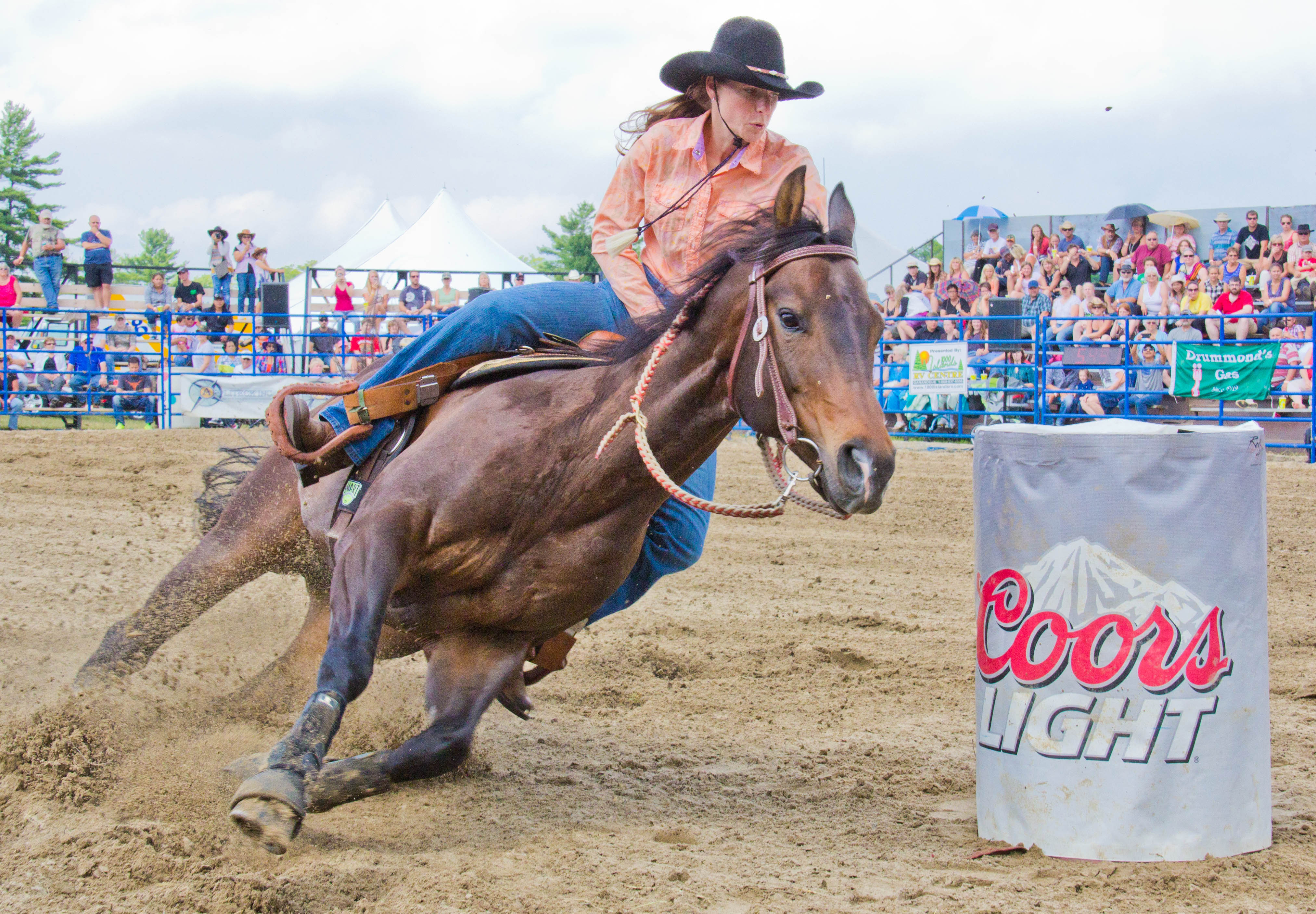 Spencerville Stampede, July 2014